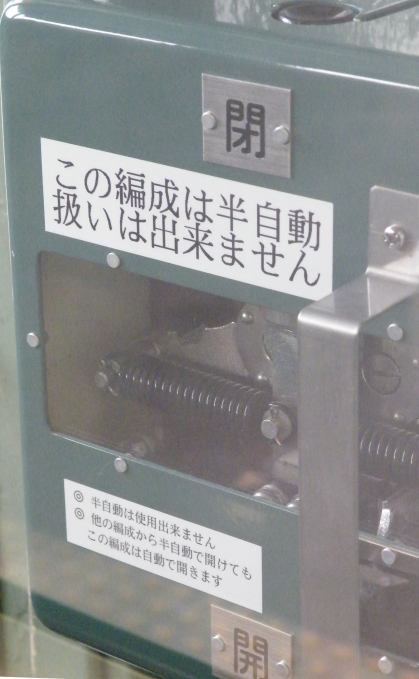 Type kuha 111-139's door switch. JR West series 115 train set "G02" consists of updated kuha111.